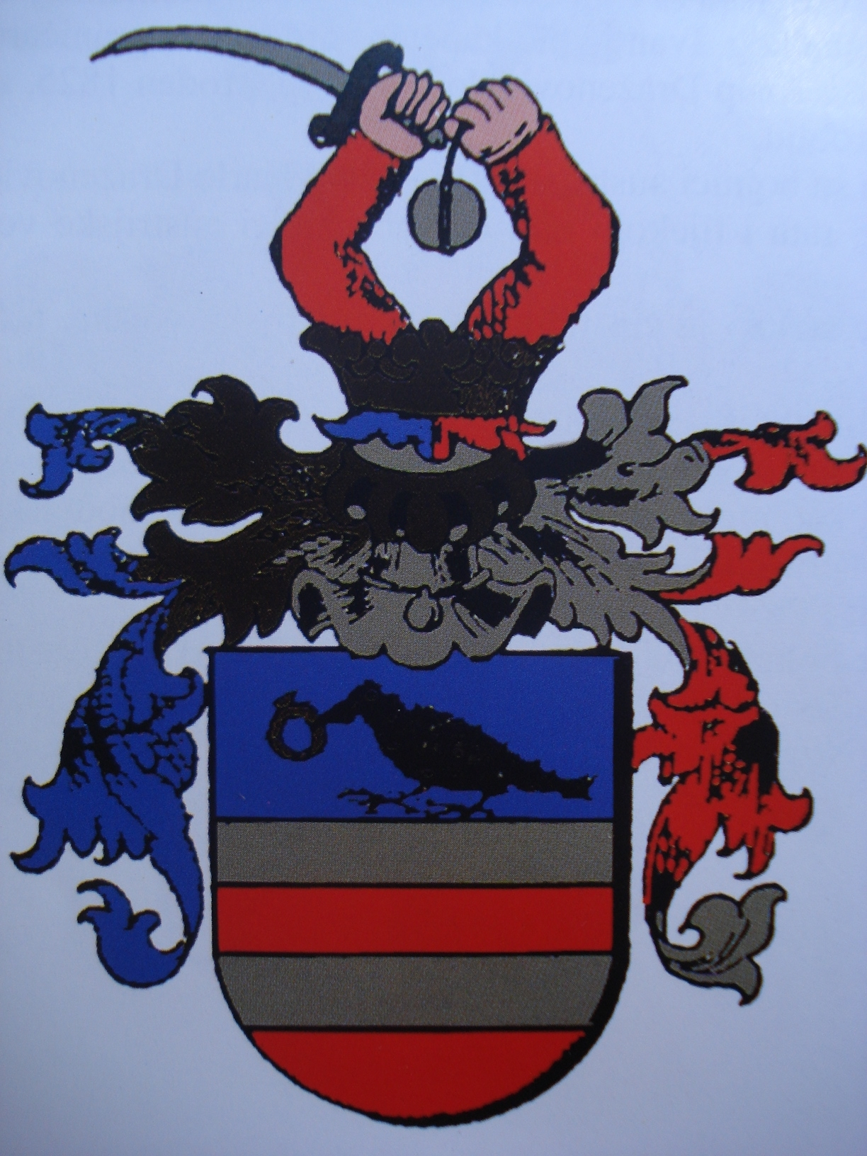 Coat of arms of the Filipović (Philippovich of Philippsberg) noble family (Croatia)